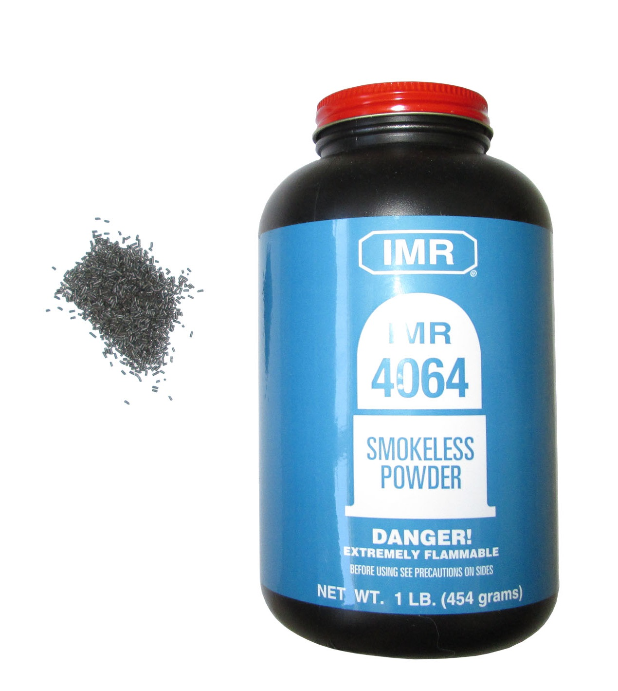 IMR 4064 powder and container.